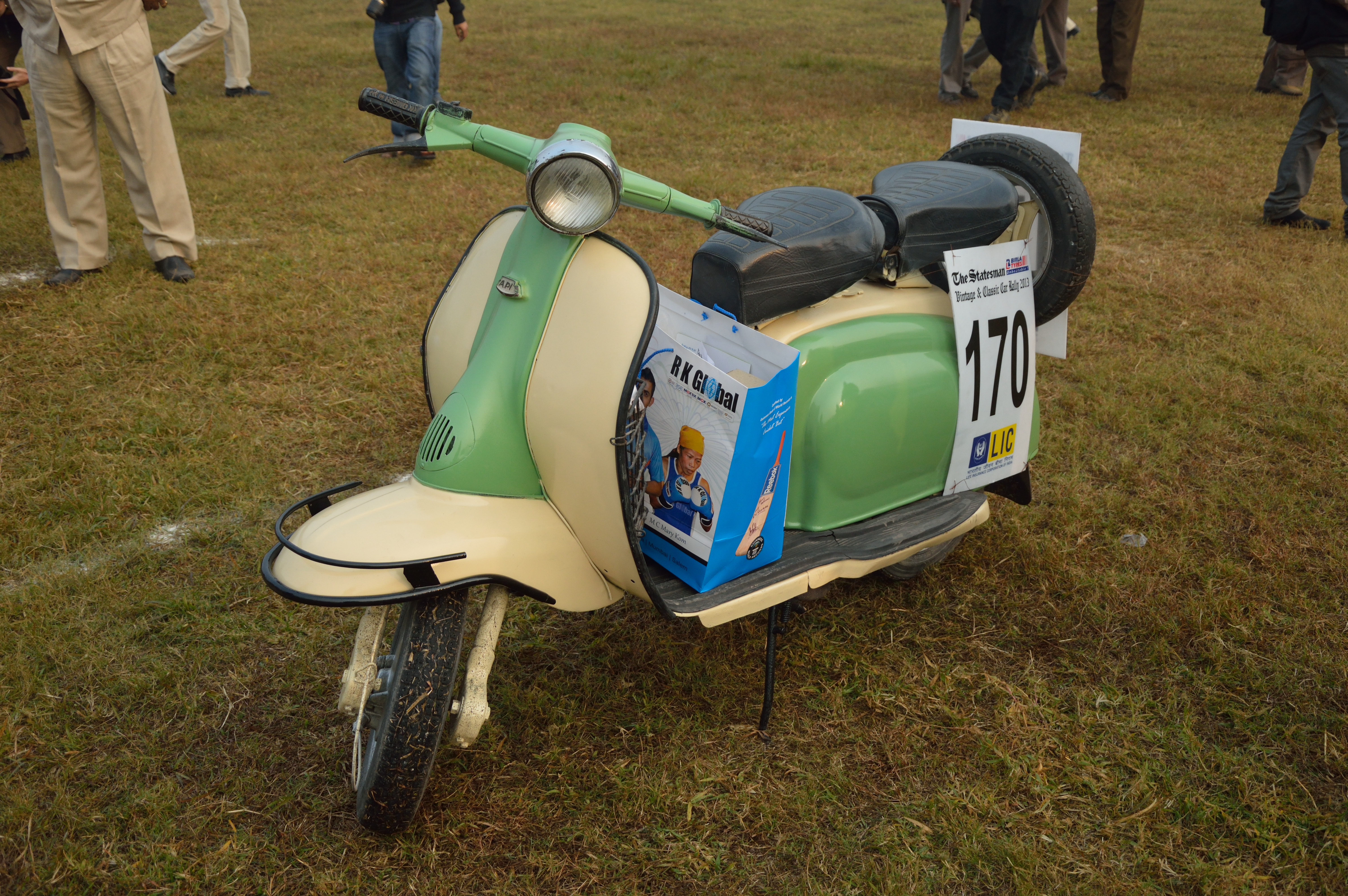 This classic two-wheeler was exhibited and ran during ‘The Statesman Vintage & Classic Car Rally 2013’ from the Eastern Command Sports Stadium of Fort William, Kolkata to the same via: Rabindra Sadan, Esplanade, Central avenue, Bhupen Bose avenue, Shaymbazaar five points crossing, APC Roy road, AGC Bose road Park Circus seven points, Gariahat flyover, Gol park, Rabindra Sarover, SP Mukherjee road, Hazra Road, Alipore road and Strand road, the route covers 31.32 km. The rally was held at chilled morning on 13 January 2013 at the ECS Stadium, where 170 entrants were participated with cars and bikes manufactured from 1906 to 1978. This one day festival takes place on the second Sunday of every January in Kolkata since 1968 with full of period costume and cultural period pieces.